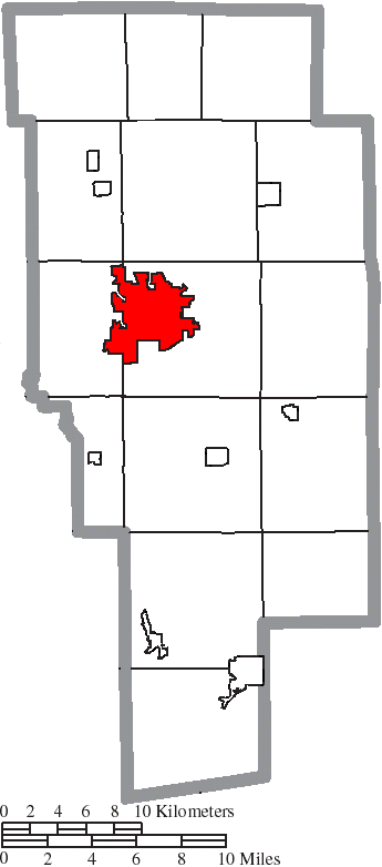 Map of the municipal and township boundaries of Ashland County, Ohio, United States, as of the 2000 census, with the location of the city of Ashland highlighted. Township borders are shown only in unincorporated areas in order to differentiate incorporated and unincorporated areas more clearly.